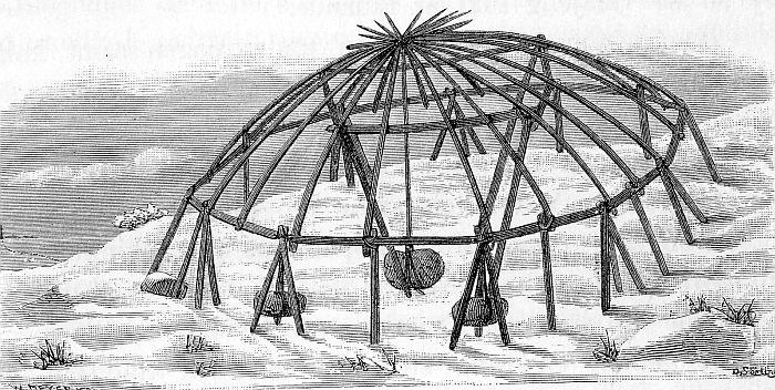 Tent frame near Pitlekaj